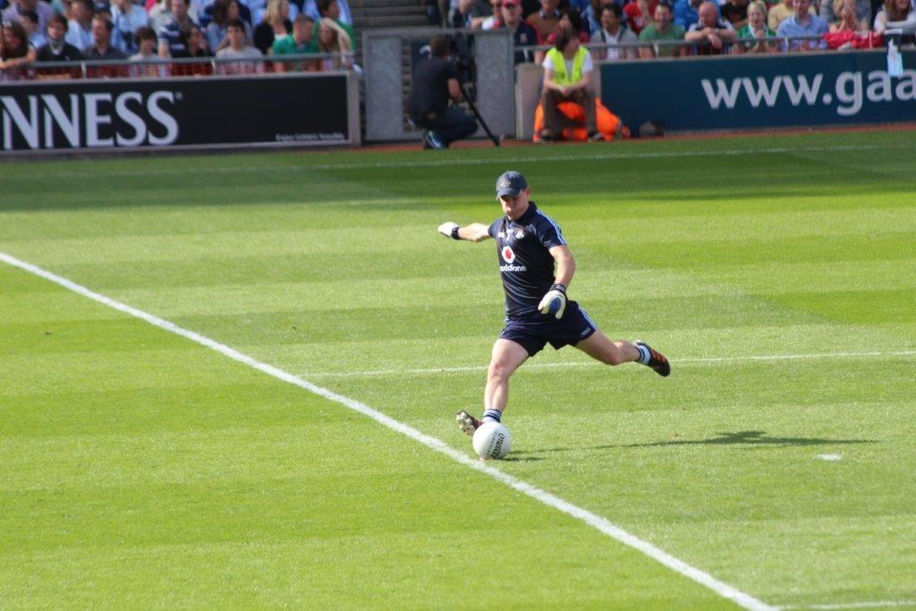 2012 All-Ireland semi-final vs Mayo